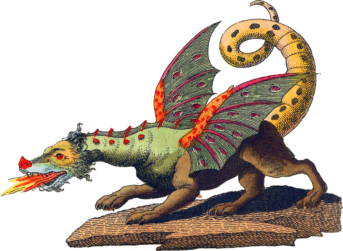 Friedrich Johann Justin Bertuch, the mythical creature dragon, 1806